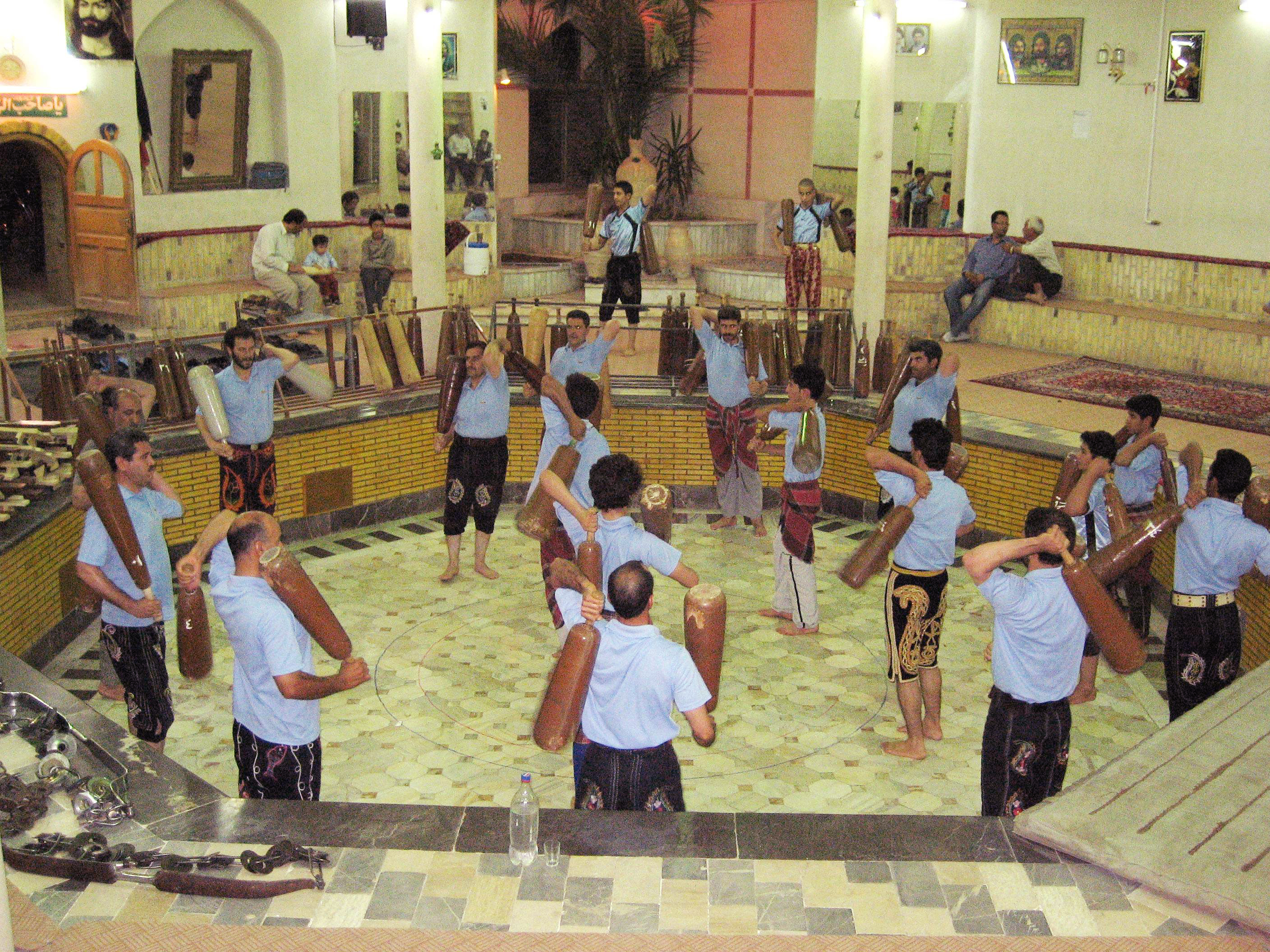 Zurkhaneh, the traditional sport